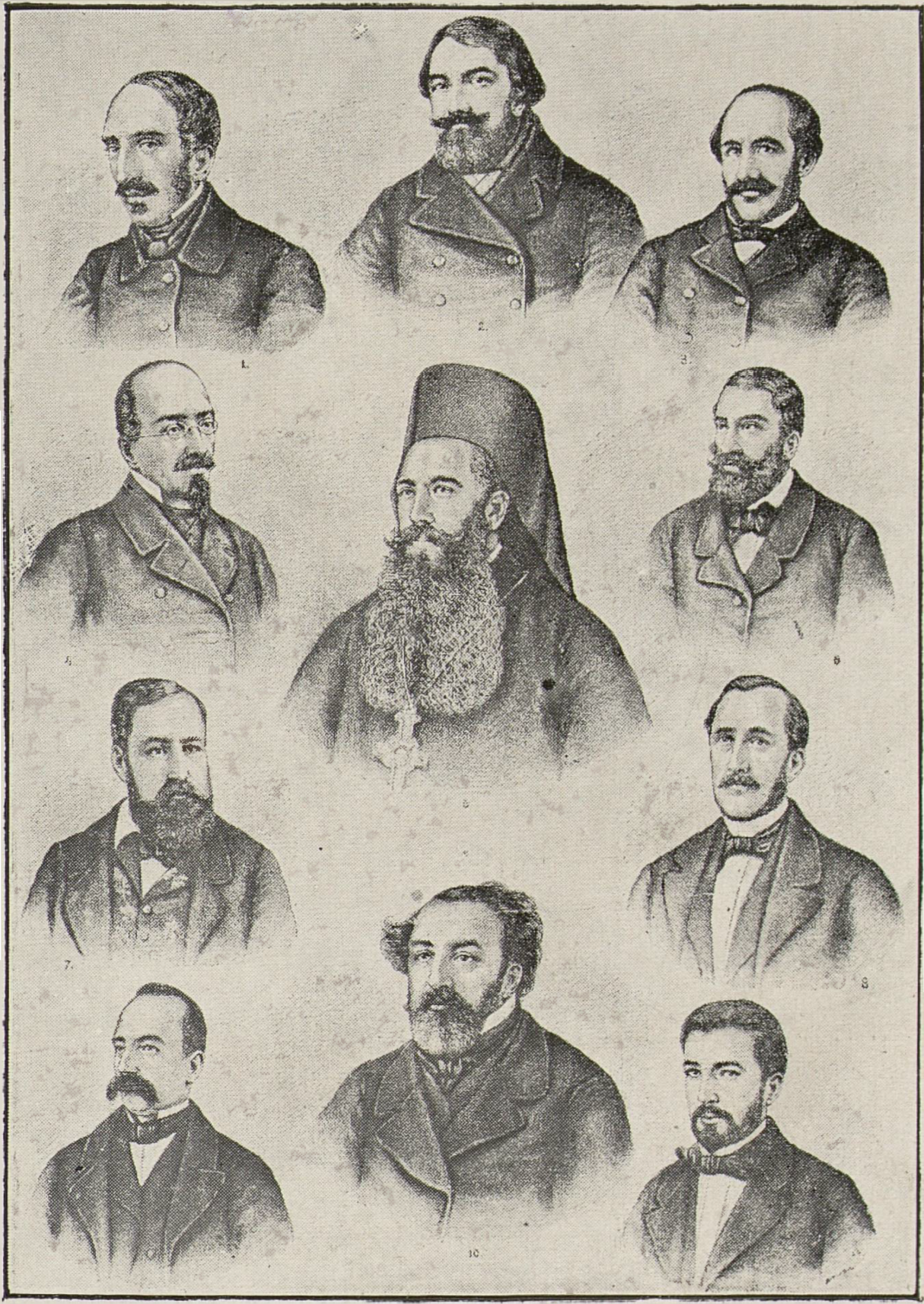 The Unionist Commitee from Iași, 1857.